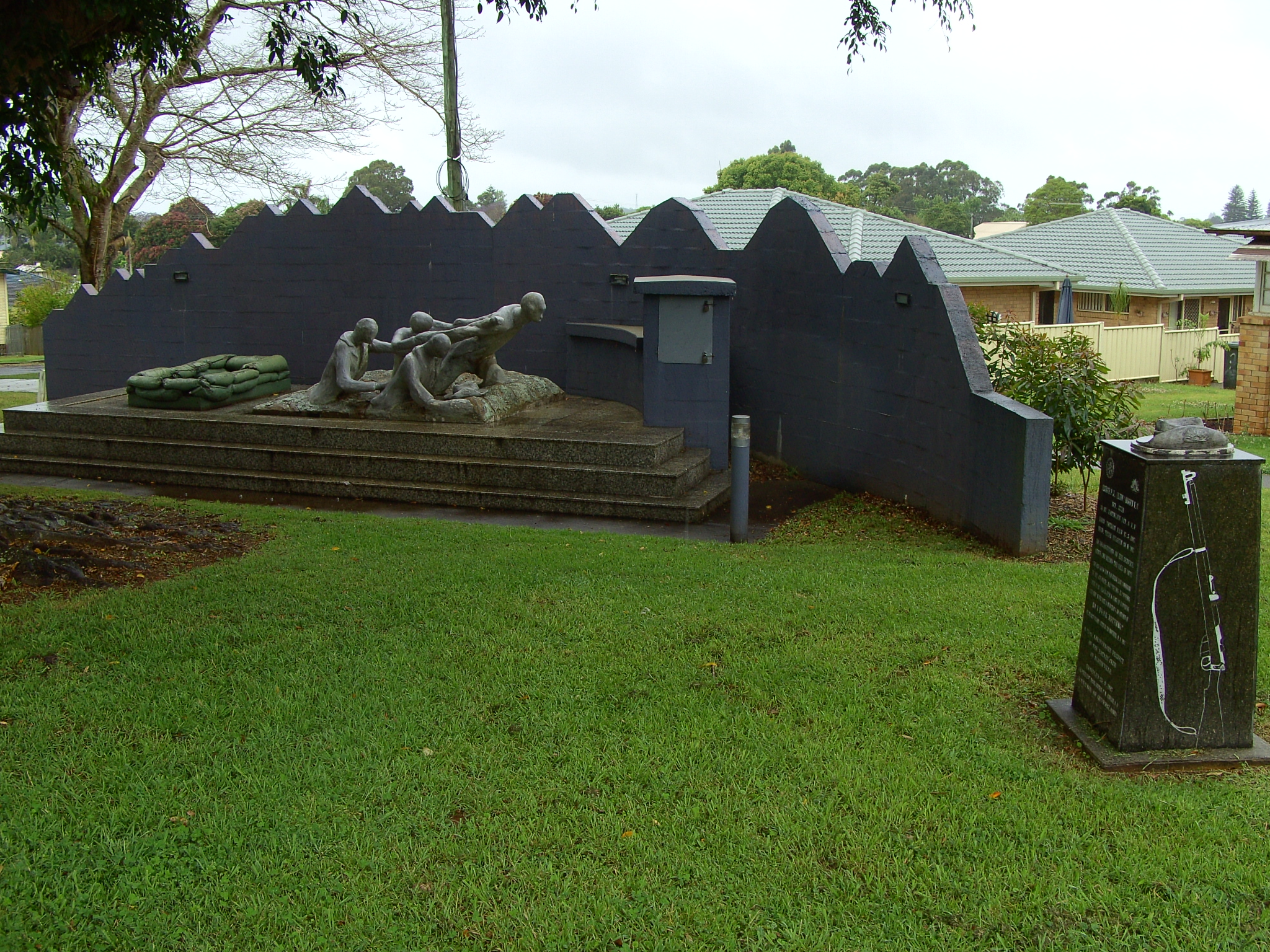 Memorial of Private Patrick Joseph Bugden VC (en:17 March en:1897 â€“ en:28 September en:1917) in Alstonville, New South Wales Pillar at right bears a bronze representation of a slouch hat with the words: Private P.J. (Paddy) Bugden VC No. 3774 31st Battalion 1st A.I.F. Born: Tatham NSW 17.3.19897 Dies Ypres, Belgium 28.9.1917 In Recognition of his Service Above and Beyond the Call of Duty "We are going into the firing line tomorrow. If by chance anything happens, I feel that I shall gain a place of happiness for I have never done a deed that I am ashamed of so I fear nothing." Extract from letter to mother 9.1.1917 A 25th anniversary project of the Rotary Club of Alstonville. Unveiled 28.9.1997 His Excellency Major General P.M. Arnison, AO Governor of Queensland